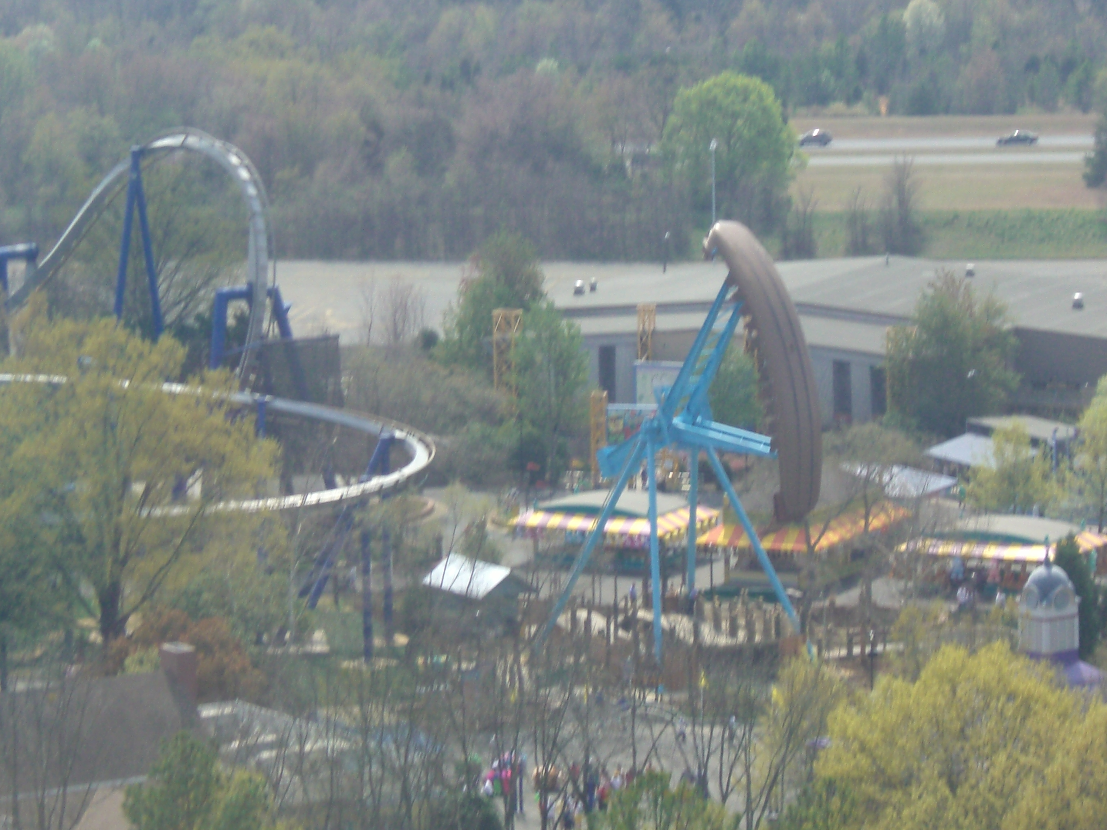 Southern Star at Carowinds The only requirement of this license is that you give me credit, otherwise the image is free.